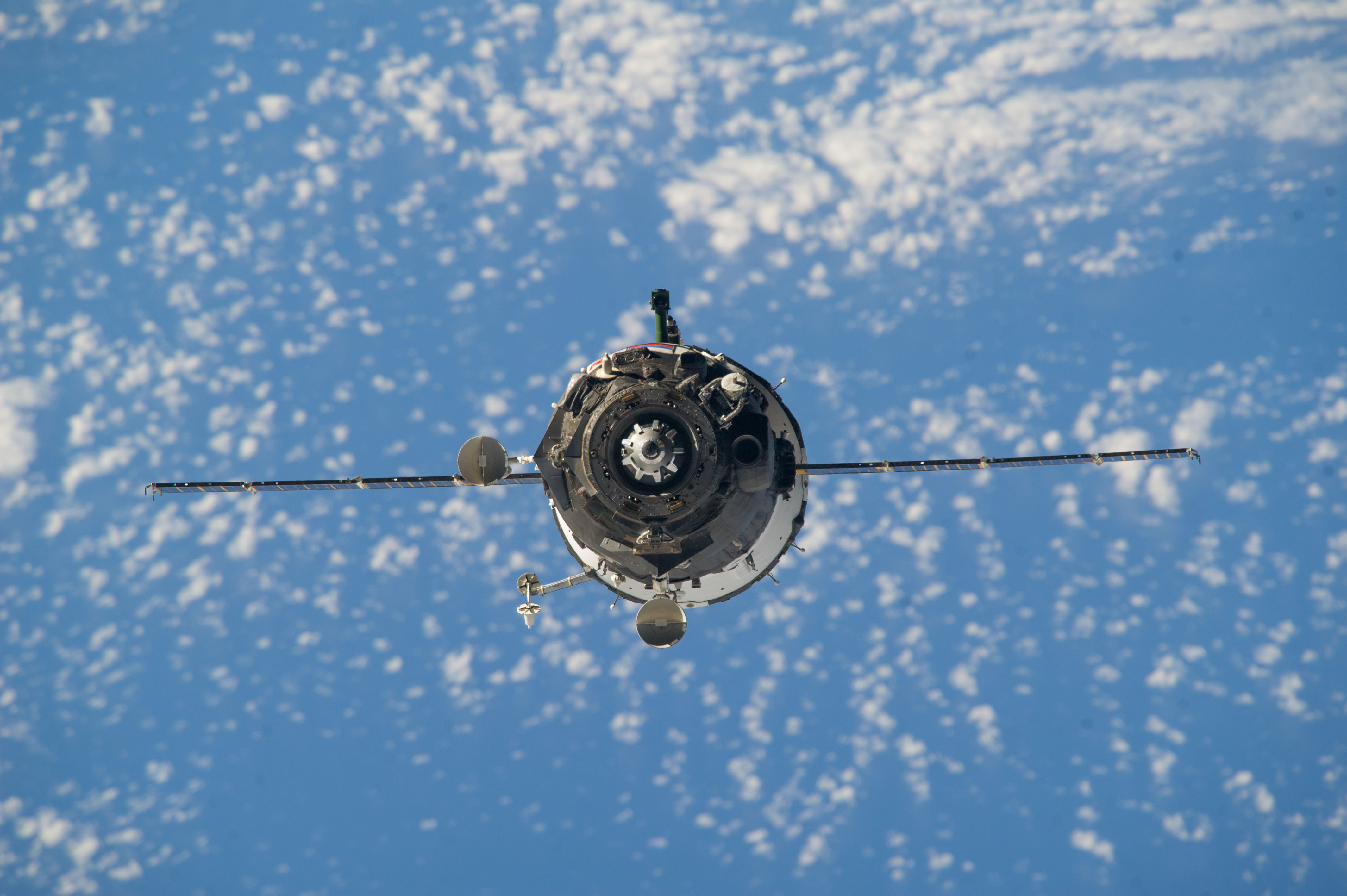 Other 3 new crew mates have arrived. A view from the International Space Station shows the Soyuz TMA-12M spacecraft shortly before docking of the two orbiting vehicles. Onboard the Soyuz at this time were incoming Expedition 39 crew members – Soyuz Commander Alexander Skvortsov of the Russian Federal Space Agency (Roscosmos), Flight Engineer Steve Swanson of NASA and Flight Engineer Oleg Artemyev of Roscosmos. Onboard the orbiting complex were Expedition 39 Commander Koichi Wakata of the Japan Aerospace Exploration Agency (JAXA), Flight Engineer Rick Mastracchio of NASA and Flight Engineer Mikhail Tyurin of Roscosmos.